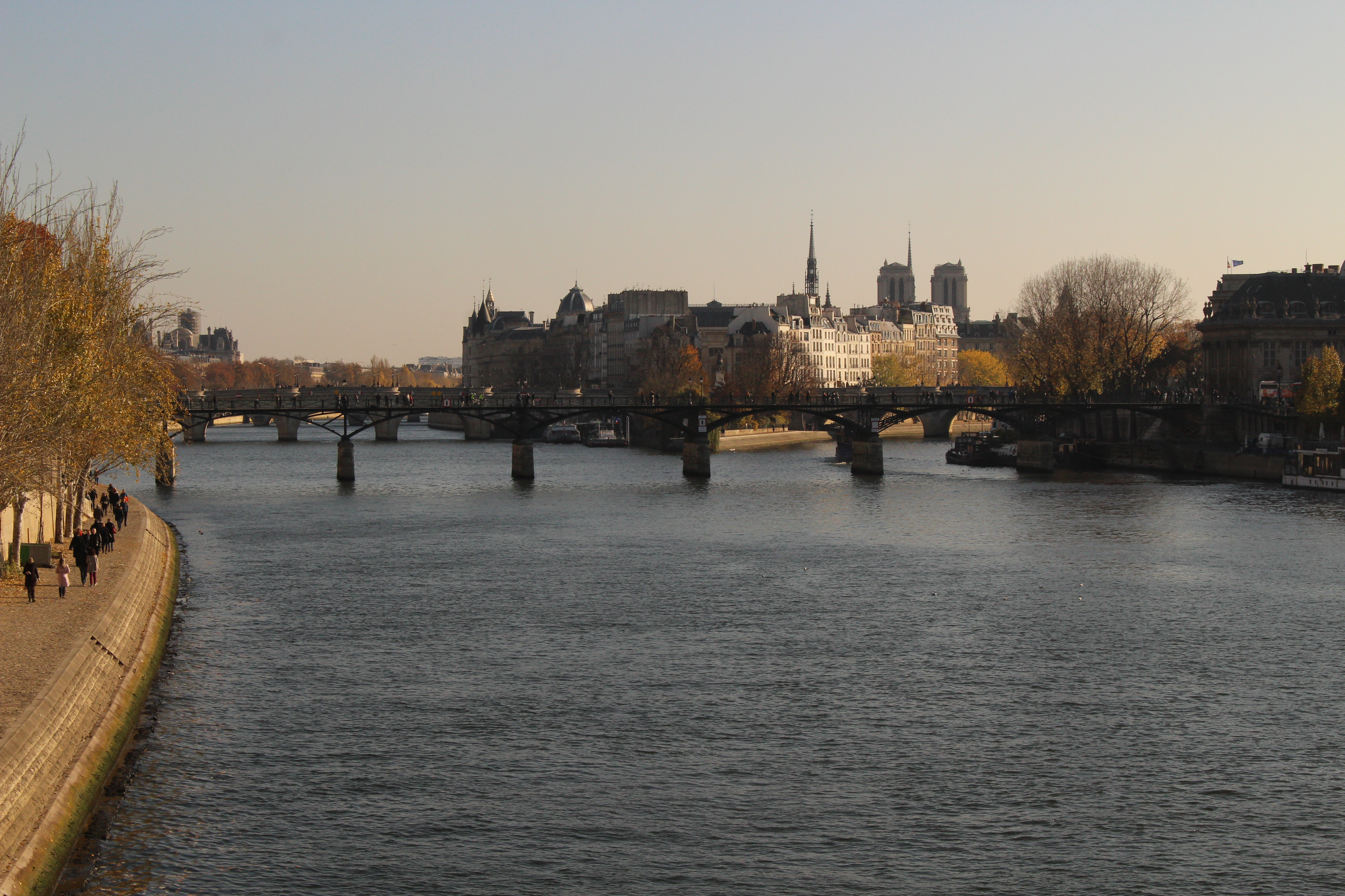 Seine River with Notre Dame church at distance.